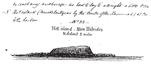 Sketch of Eretoka/Artok Island (then called Hat Island), Vanuatu